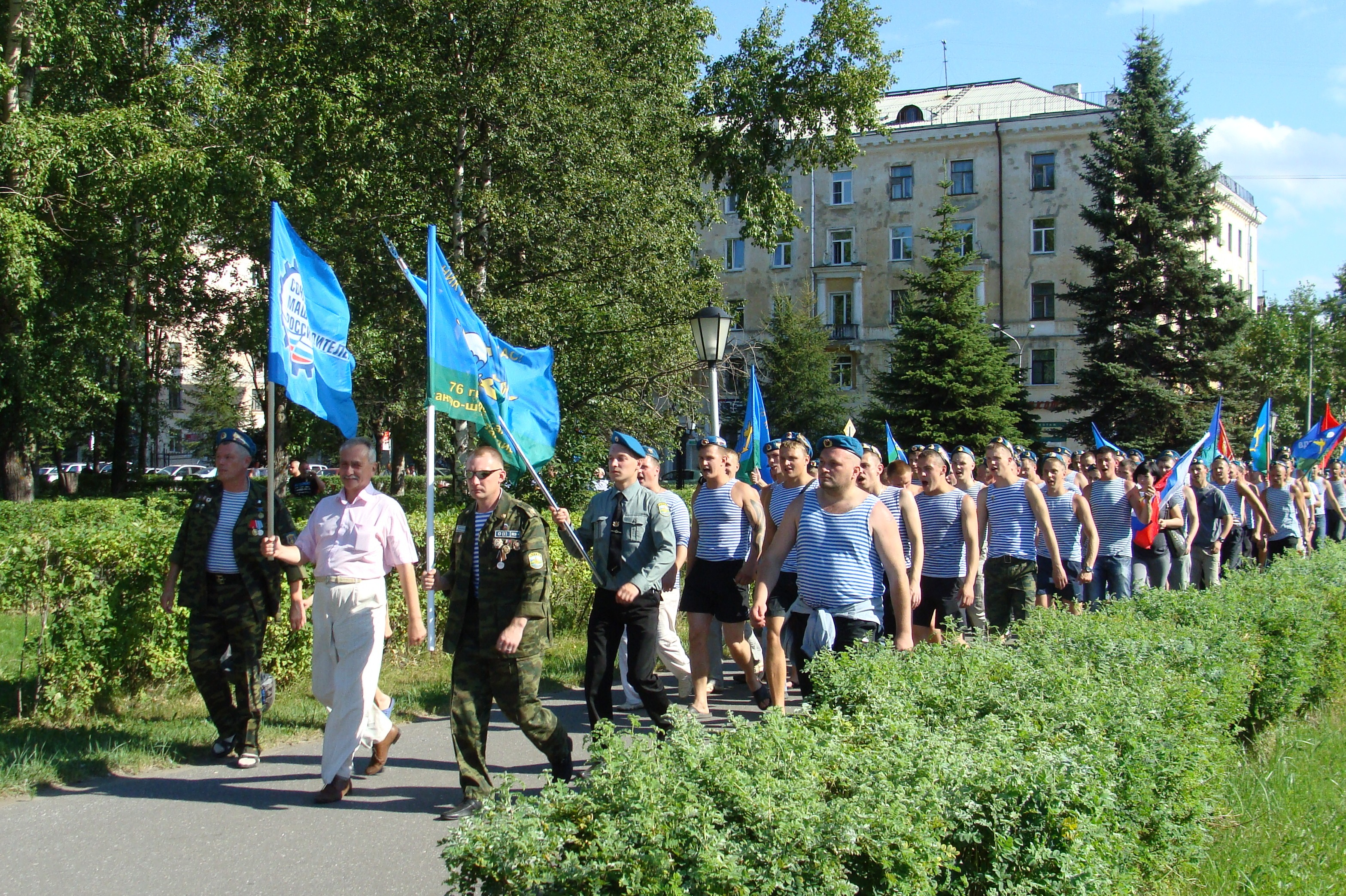 Airborne forces day in Severodvinsk (2010-08-02)